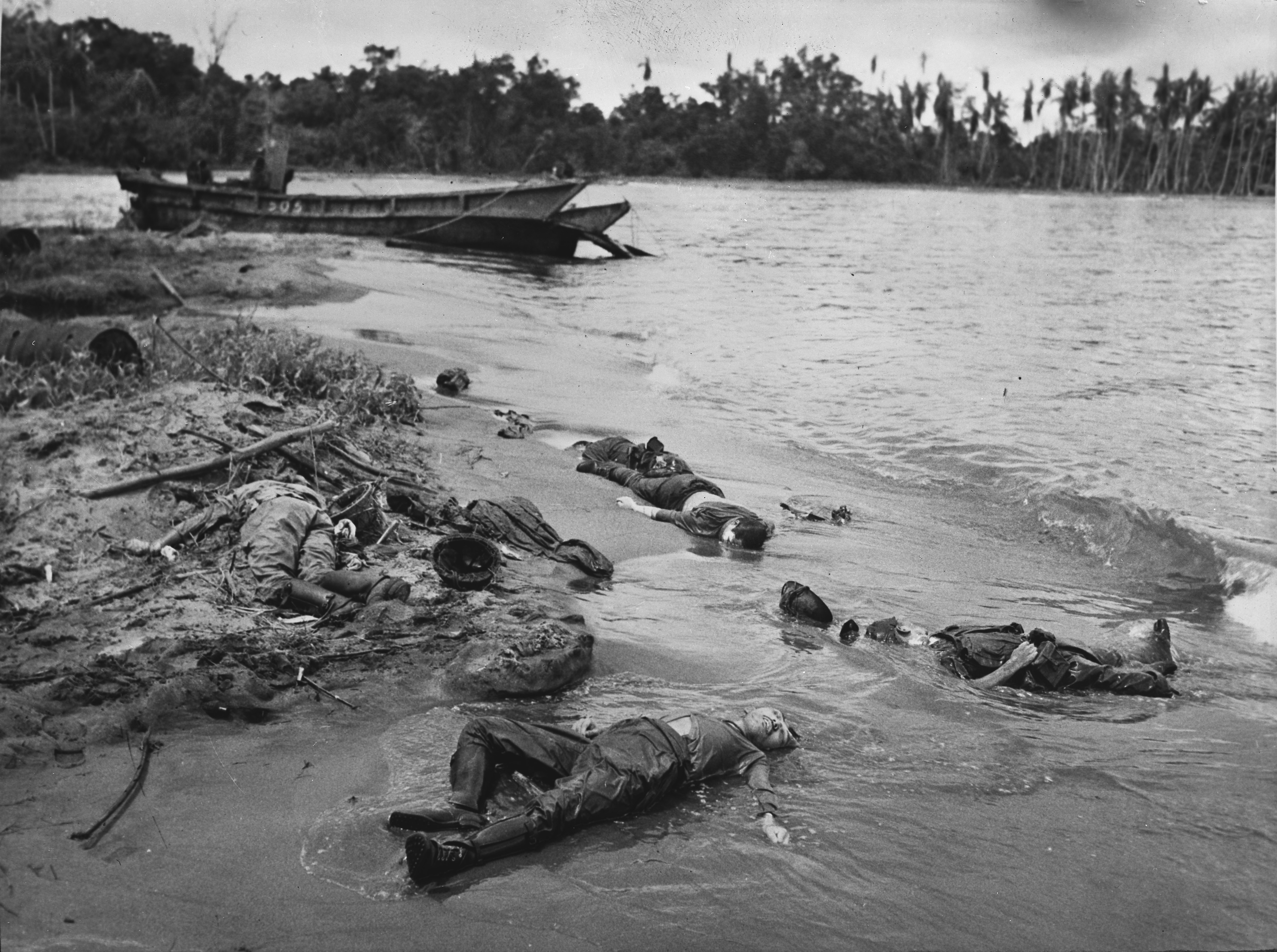 Library of Congress title: "U.S. forces inflict heavy casualties on Jap[ane]s[e soldiers] in capture of Buna, New Guinea. On the beach of Buna Mission, last point of Japanese resistance in the Papuan section of New Guinea, the bodies of slain Japanese soldiers lie a few steps from their shattered landing boat. The Japanese suffered heavy losses in this engagement and eventually were completely routed by American and Australian forces."